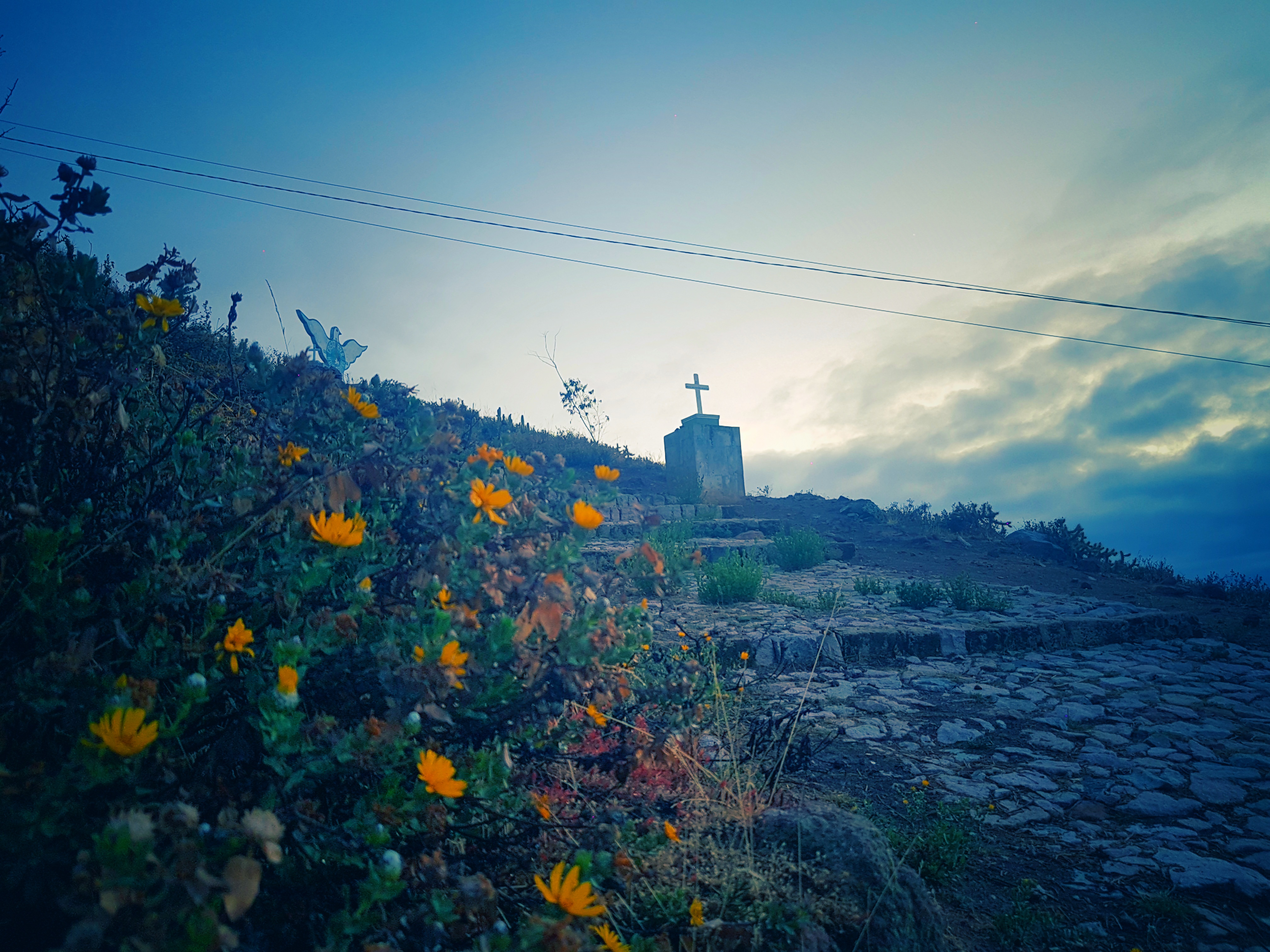 Characteristic flora in Candarave